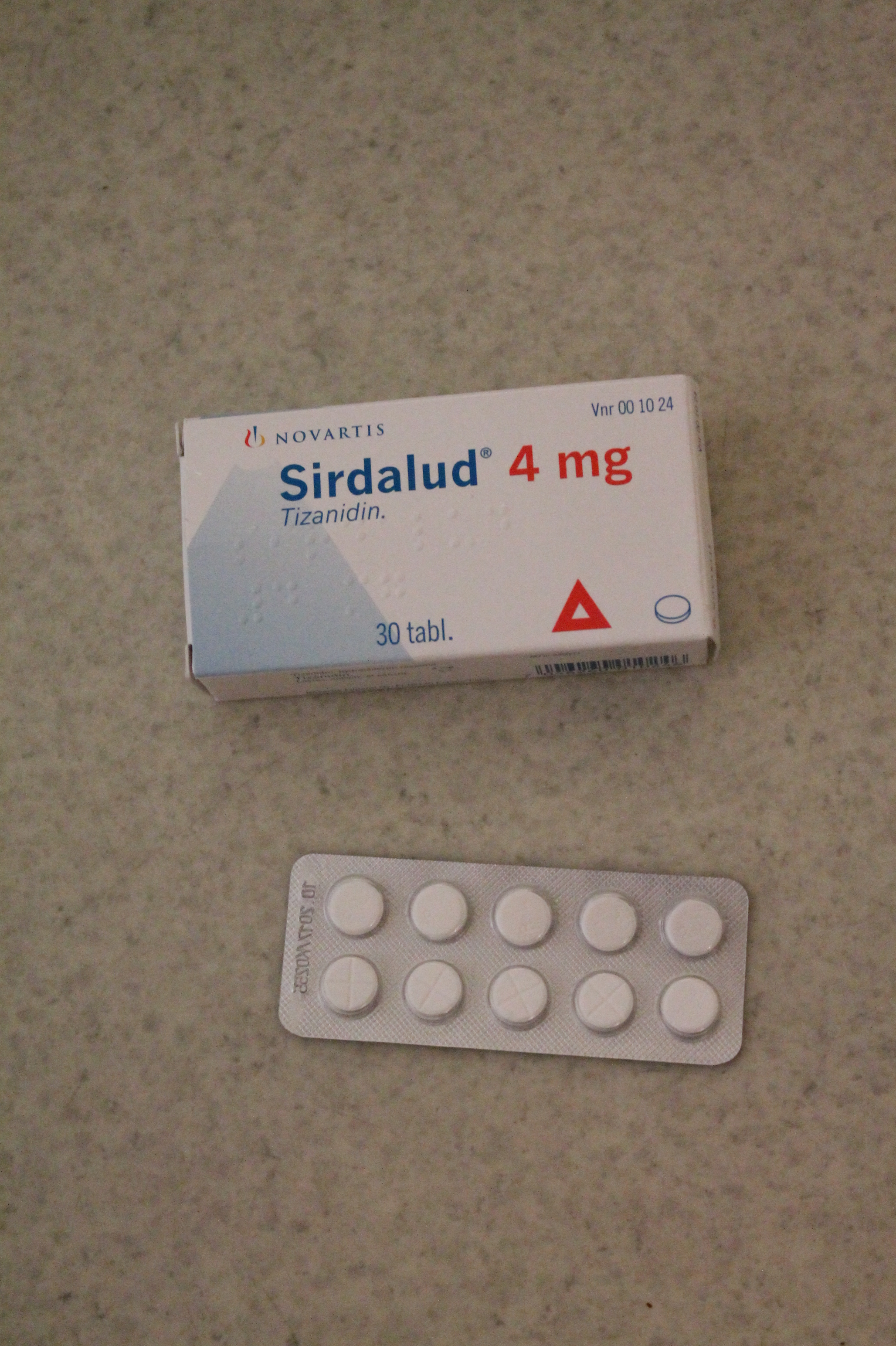 Sirdalud (Tizanidine) 4mg -tablets